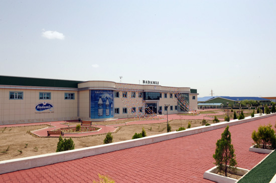 External look of the Badamli Mineral Waters Factory (Azerbaijan)